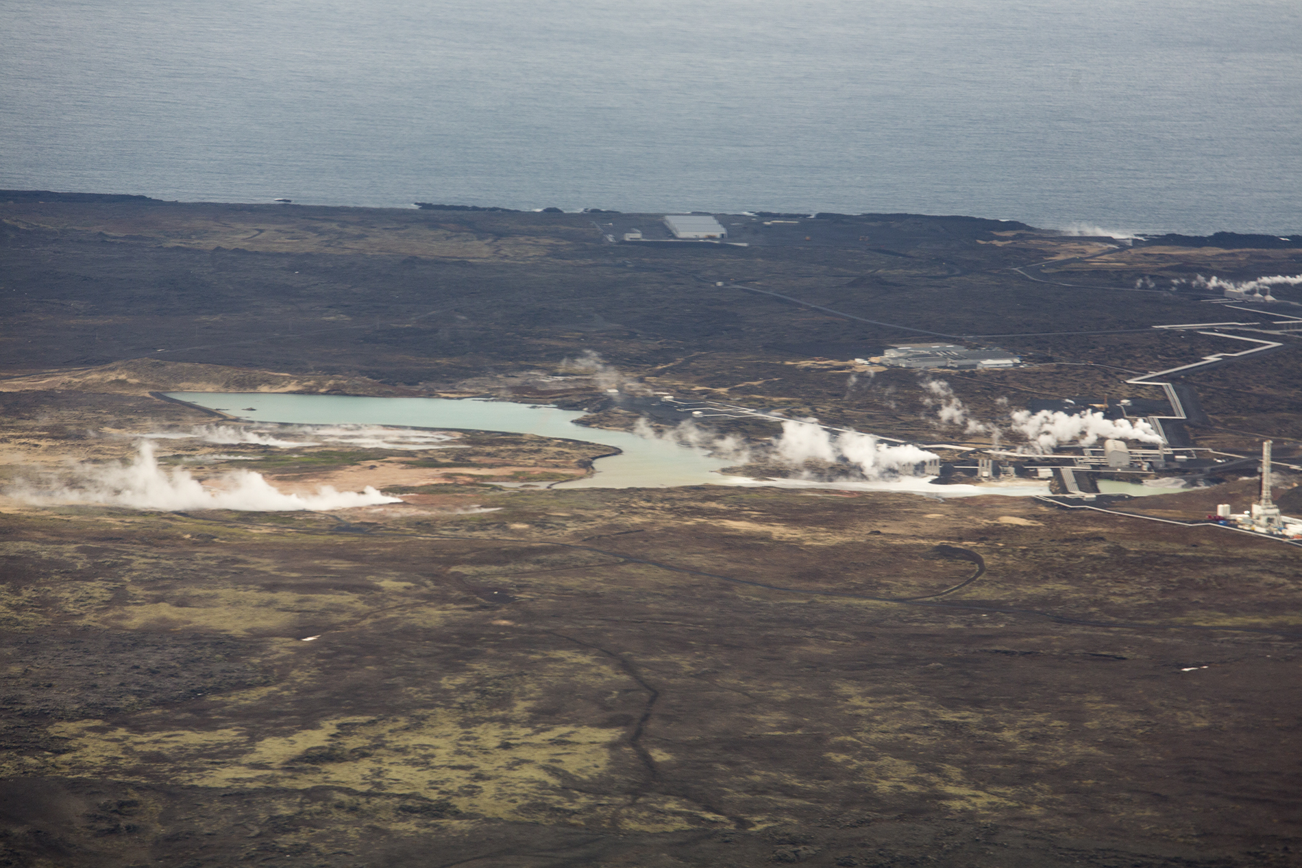 Iceland